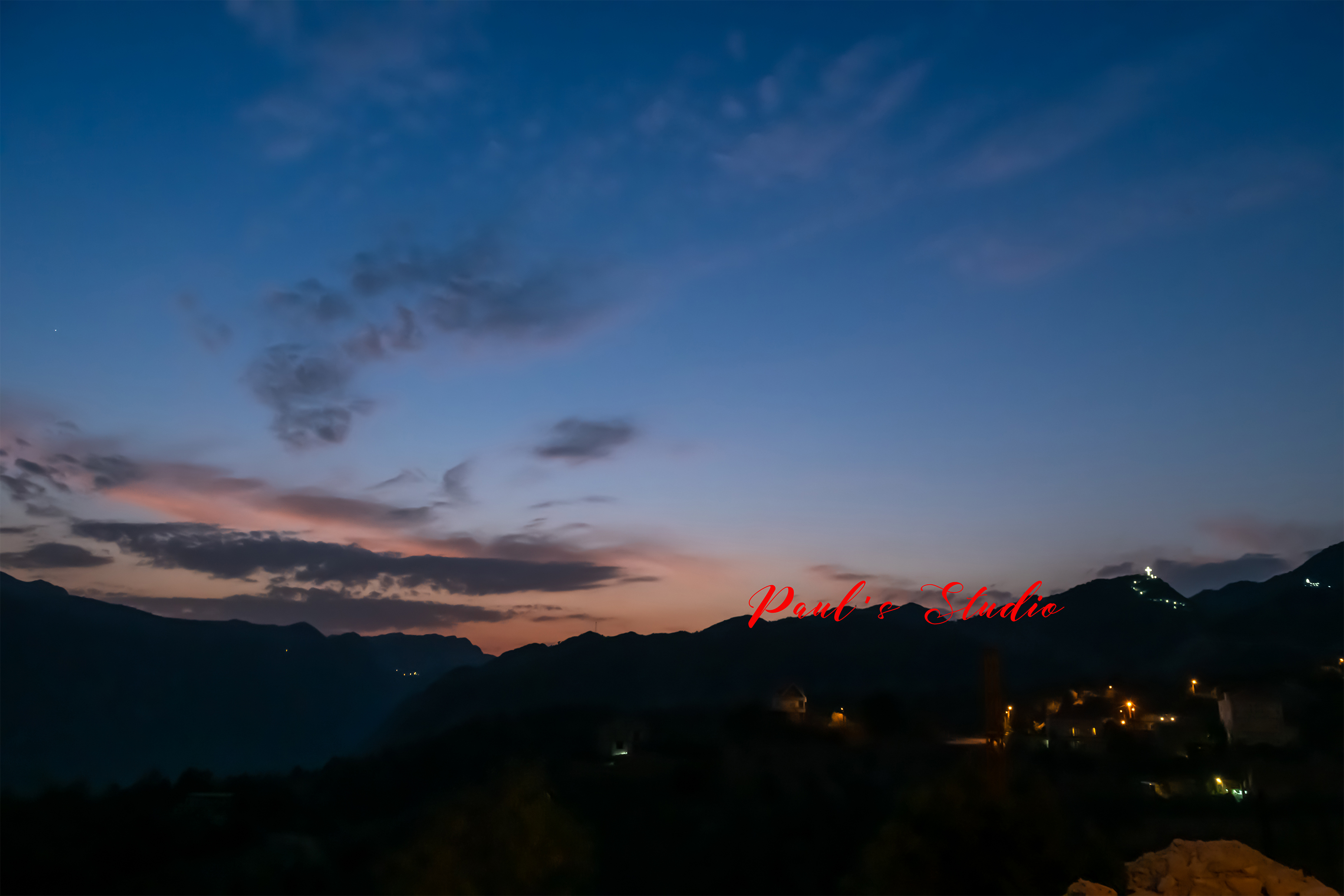 Sunset colors Lebanon